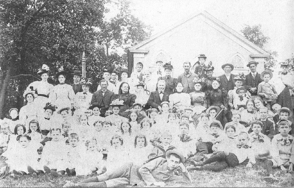 The congregation at Epsom Chapel in Towson, Maryland, (U.S.)